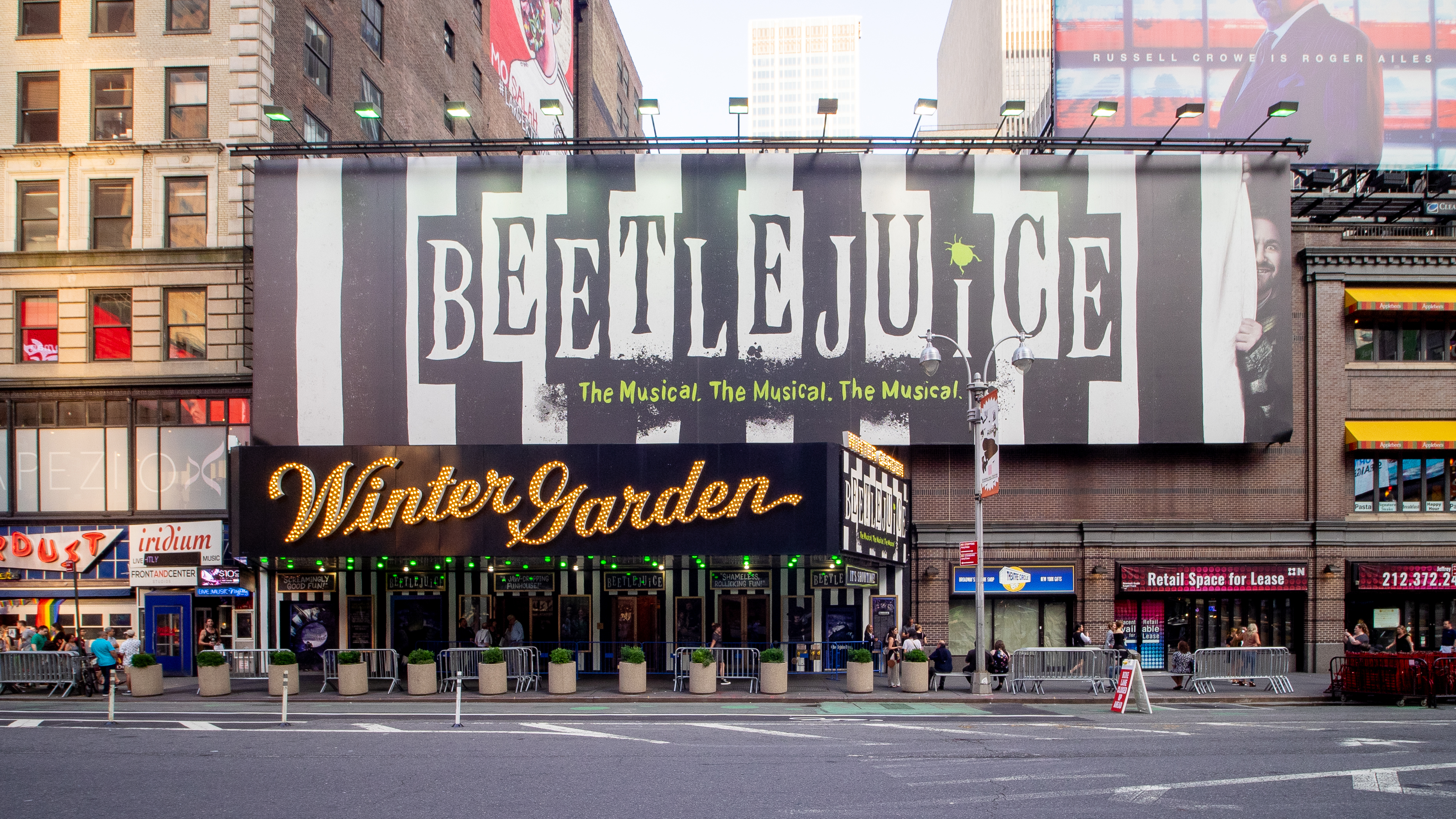 Theater District, Midtown Manhattan, NYC